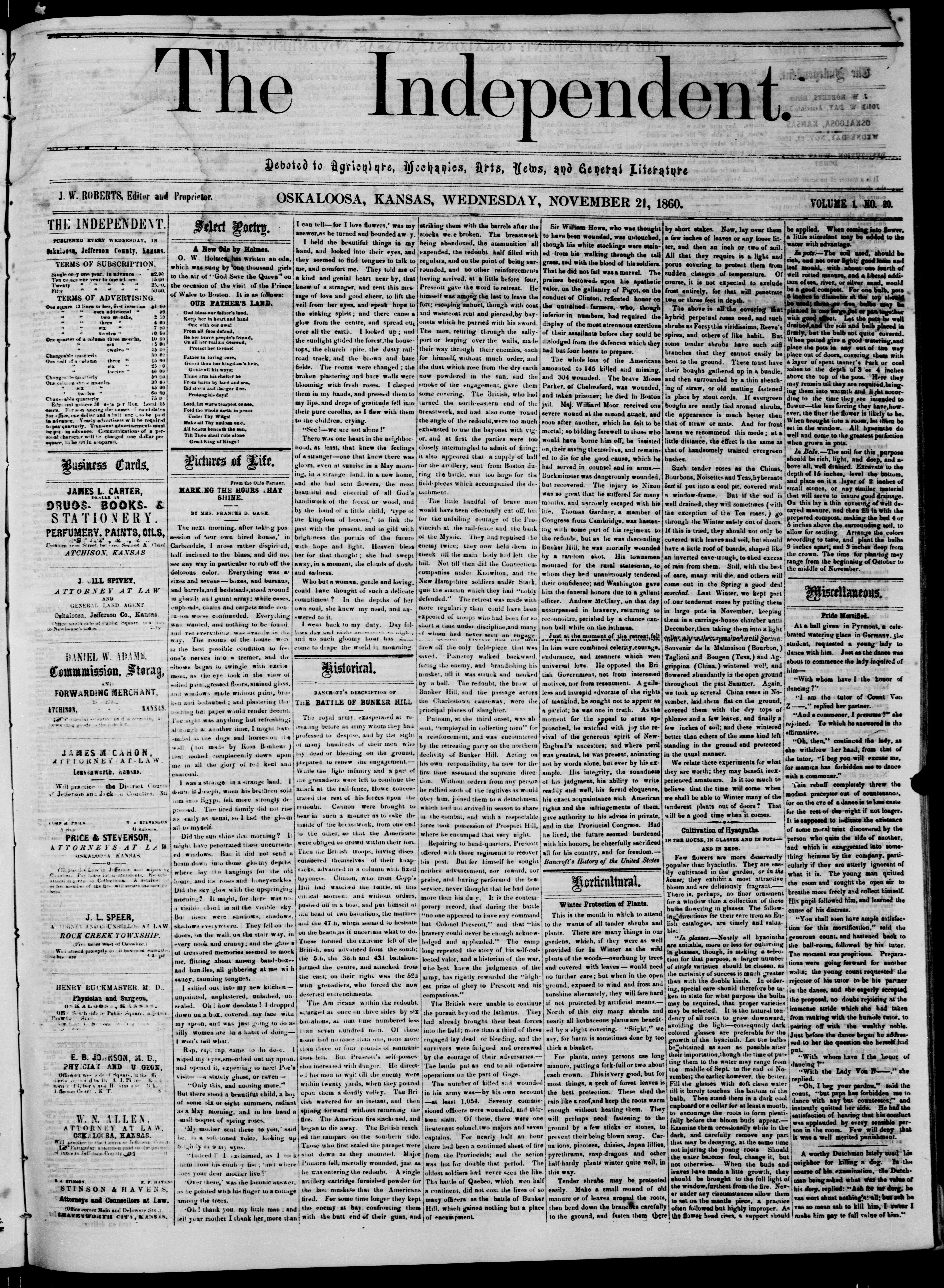 The Independent, November 21, 1860 (newspaper)